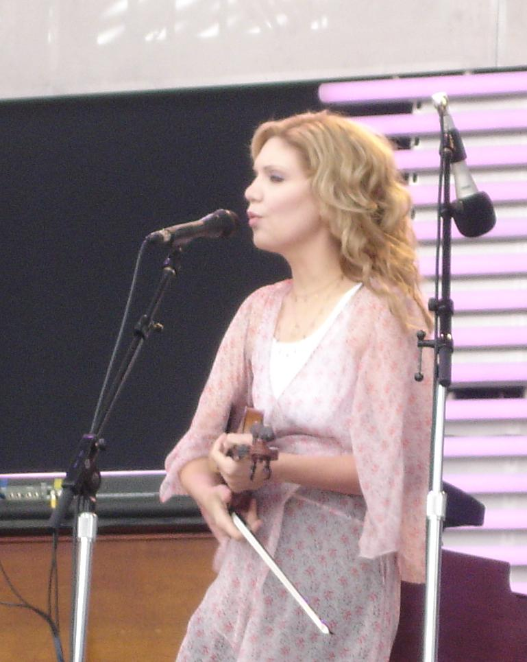 Alison Krauss Performing at the Crossroads Music Festival in 2007